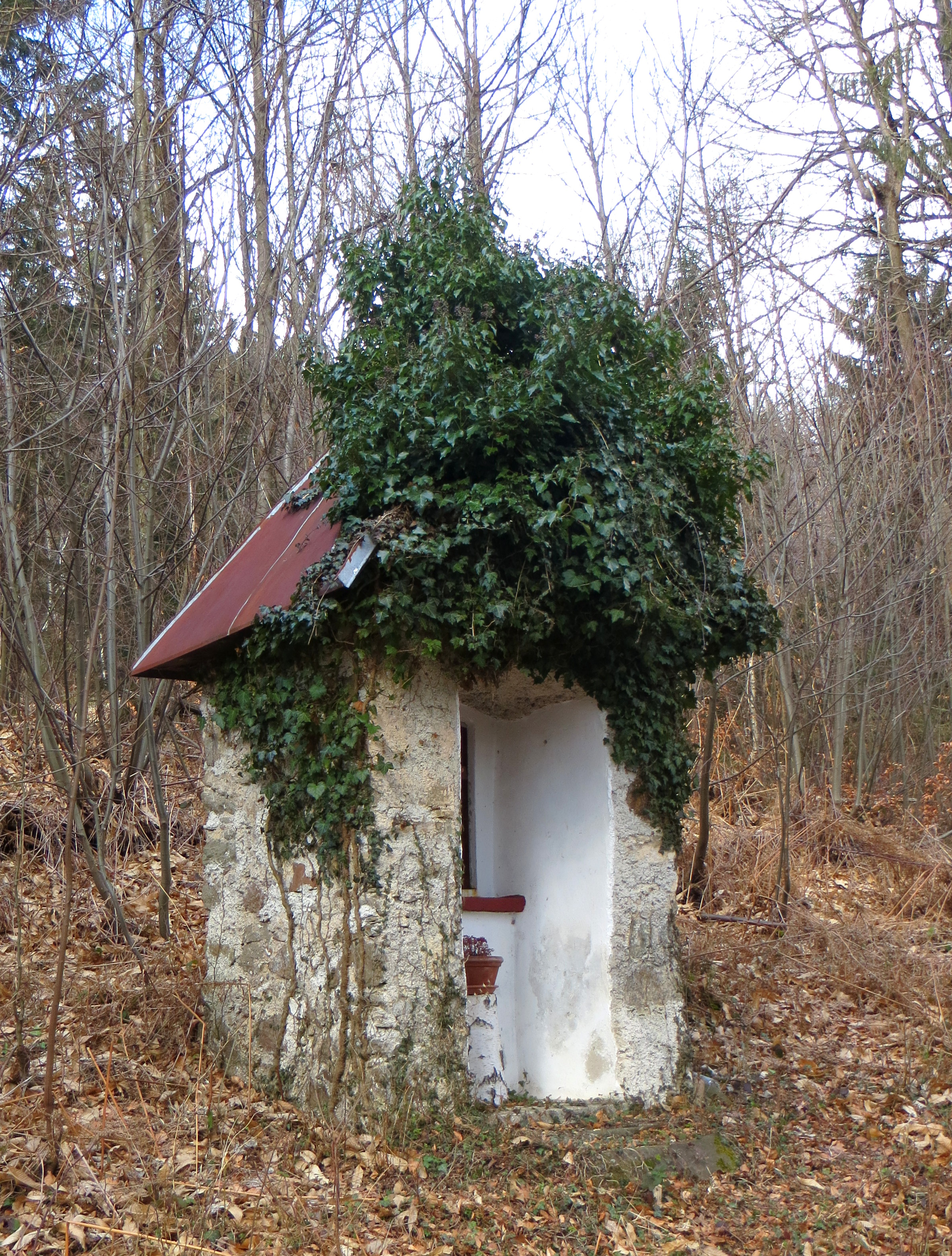 The Krmelj shrine, a wayside shrine between the Krmelj and Jamnik farms in Staniše, Municipality of Škofja Loka, Slovenia